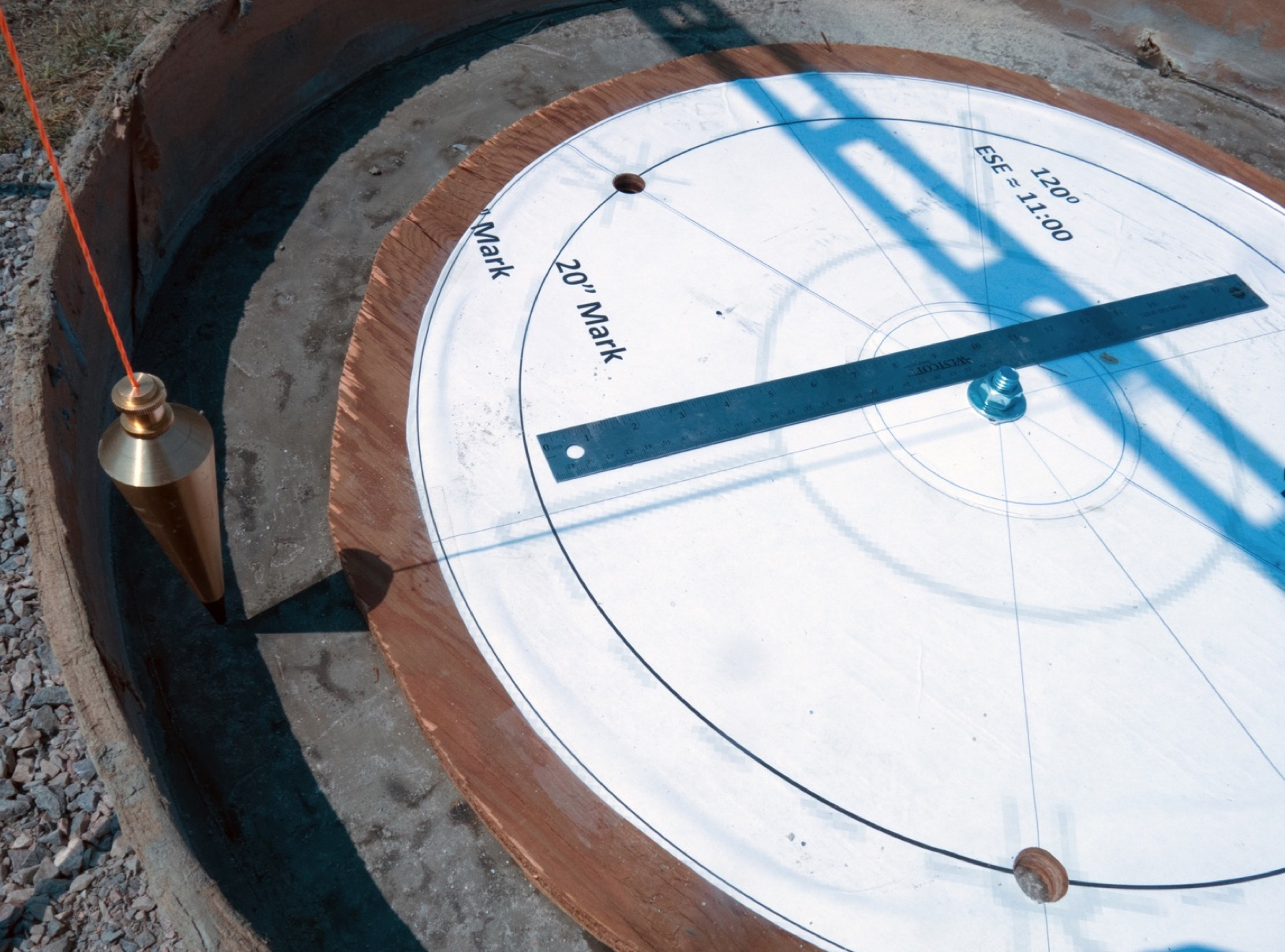 Using a plumb bob rather than a compass guaranteed perfect alignment of the 24" cast steel pier atop the 36" poured concrete pier. Note, there was only 5 degrees of play so accuracy was everything